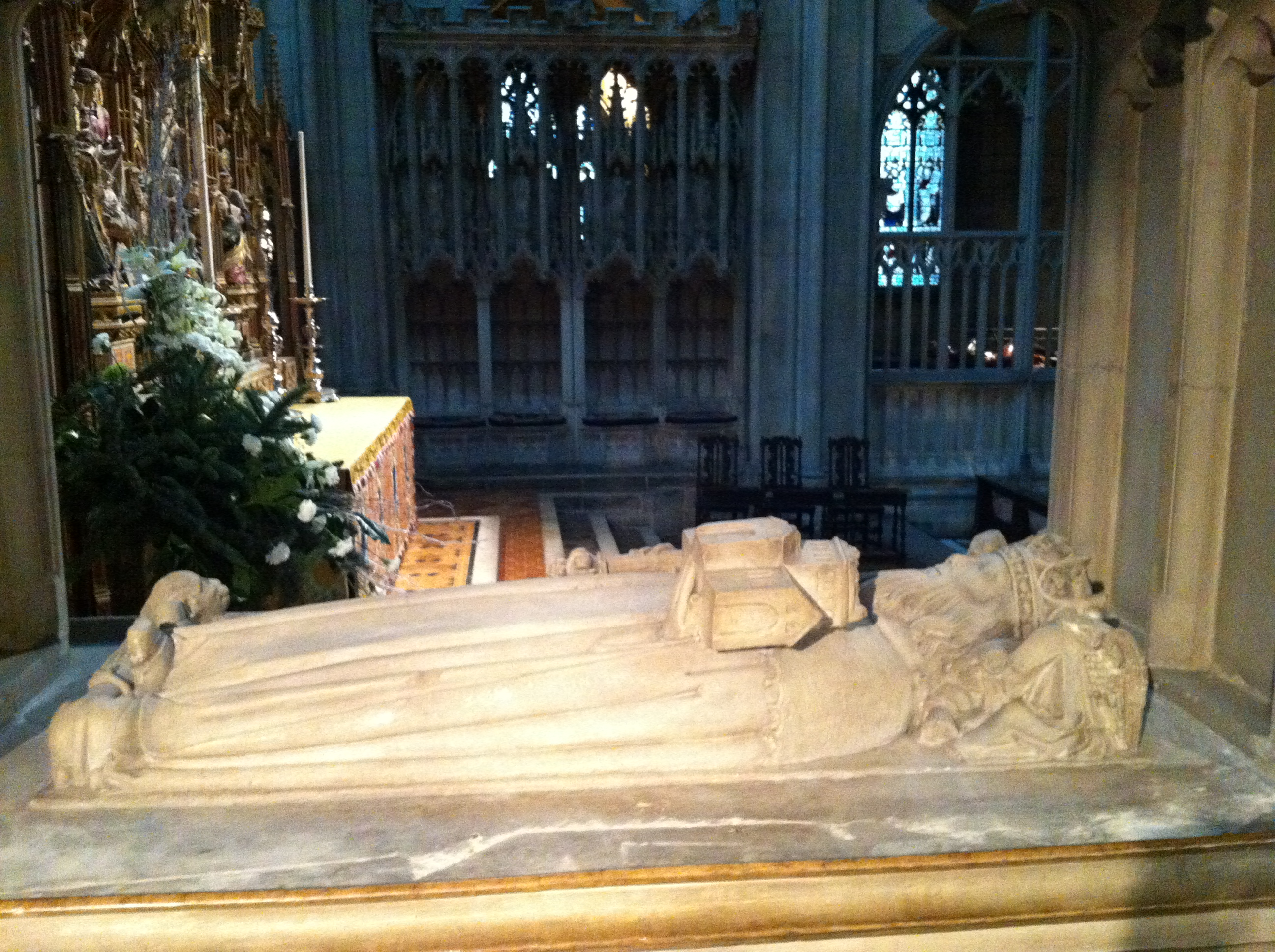 Osric, Prince of Mercia who founded the first monastic house on the site of Gloucester Cathedral during the year 678-679